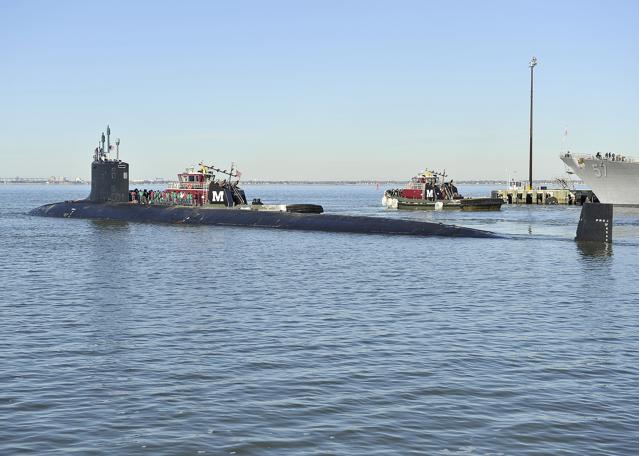 NORFOLK (Jan. 8, 2014) The U.S. Navy Virginia-class attack submarine USS Minnesota (SSN-783) departs Naval Station Norfolk for its permanent homeport at Naval Submarine Base, Groton, Connecticut (USA). Minnesota was commissioned as the 10th Virginia-class attack submarine in Norfolk on 7 September 2013. The boat was assigned to Commander, Submarine Squadron (SUBRON) 4 in Groton.